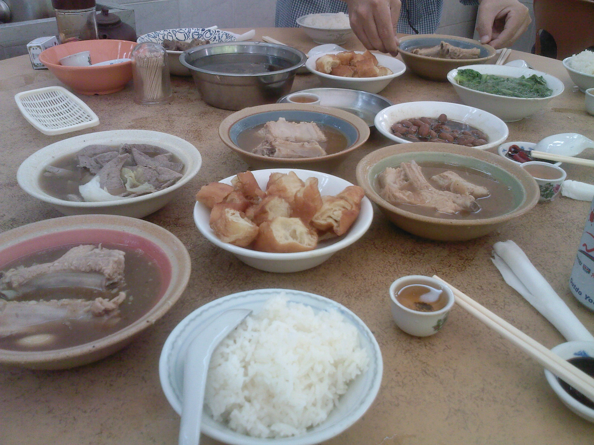 Multiple servings of Bak Kut Teh (Pork bone soup) served with youtiao (Chinese breakfast pastries), rice and other dishes at a large table.